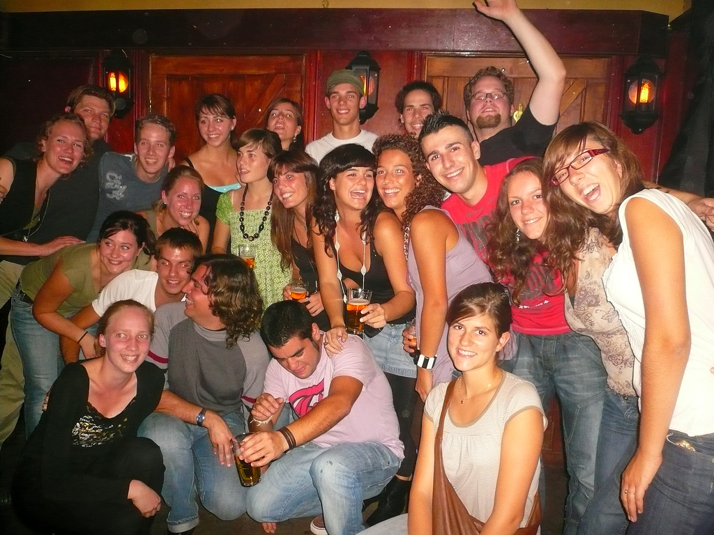 Erasmus students from 5 different countries gathering at a party in Groningen, Netherlands.